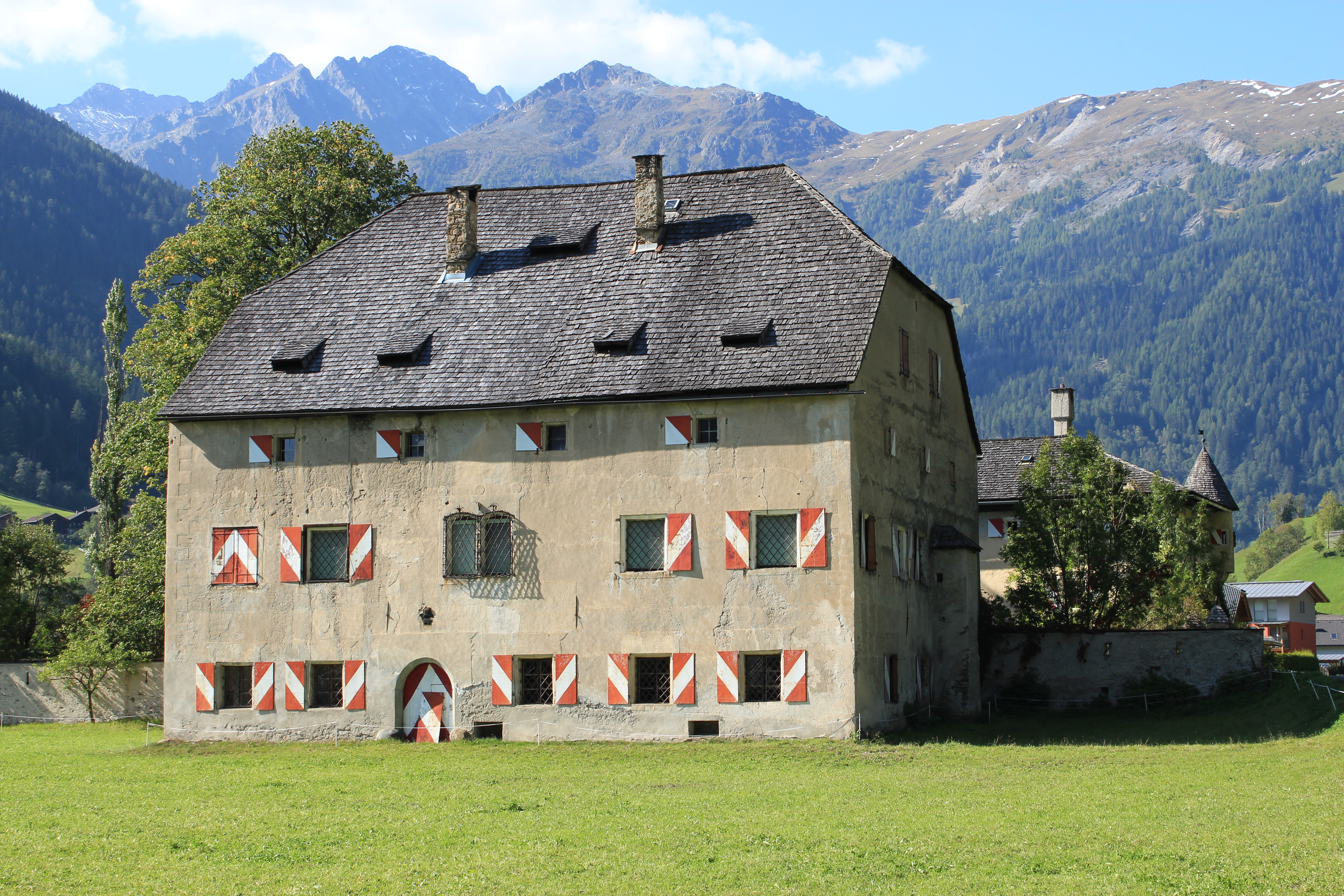 Castle in Großkirchheim